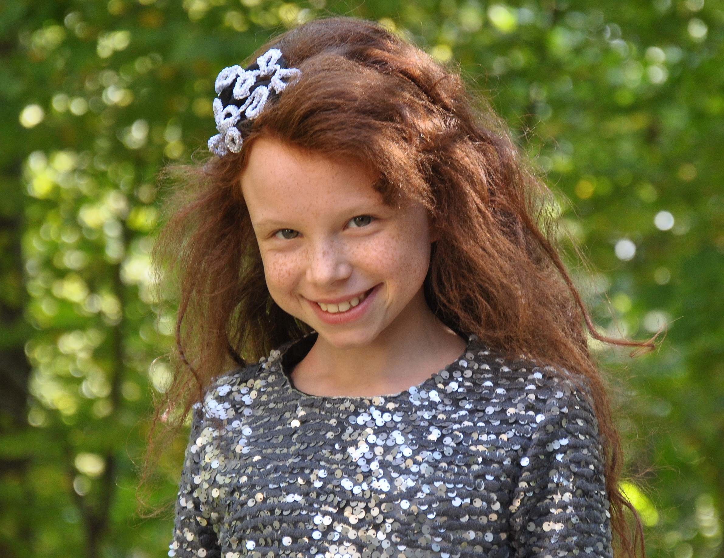 Actress Mercedes Jadea Diaz, Munich, September 2011